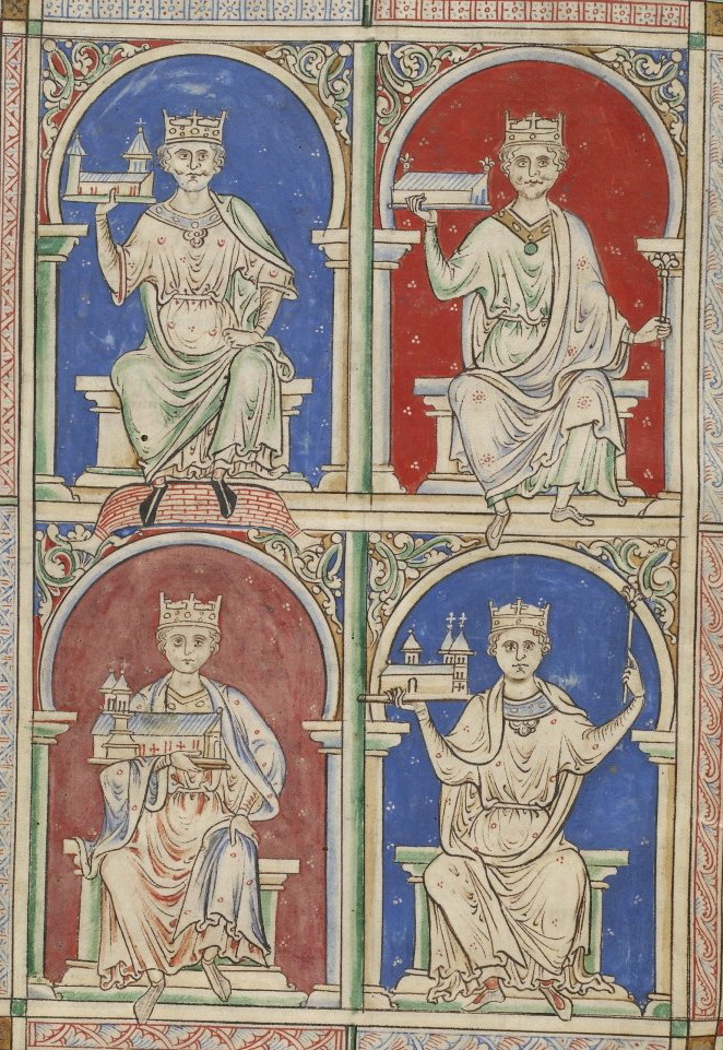 Portraits of English kings: William I the Conqueror and William II Rufus, in the upper register, and Henry I Beauclerc and Stephen of Blois, in the lower register. (British Library, Royal 14 C VII f. 8v)